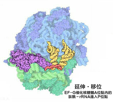 Translocation of translation